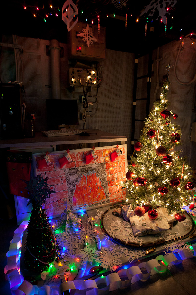 We were in a contest to decorate our doors. What did these guys do? Took the door clear off and put stuff atop it. Creative.